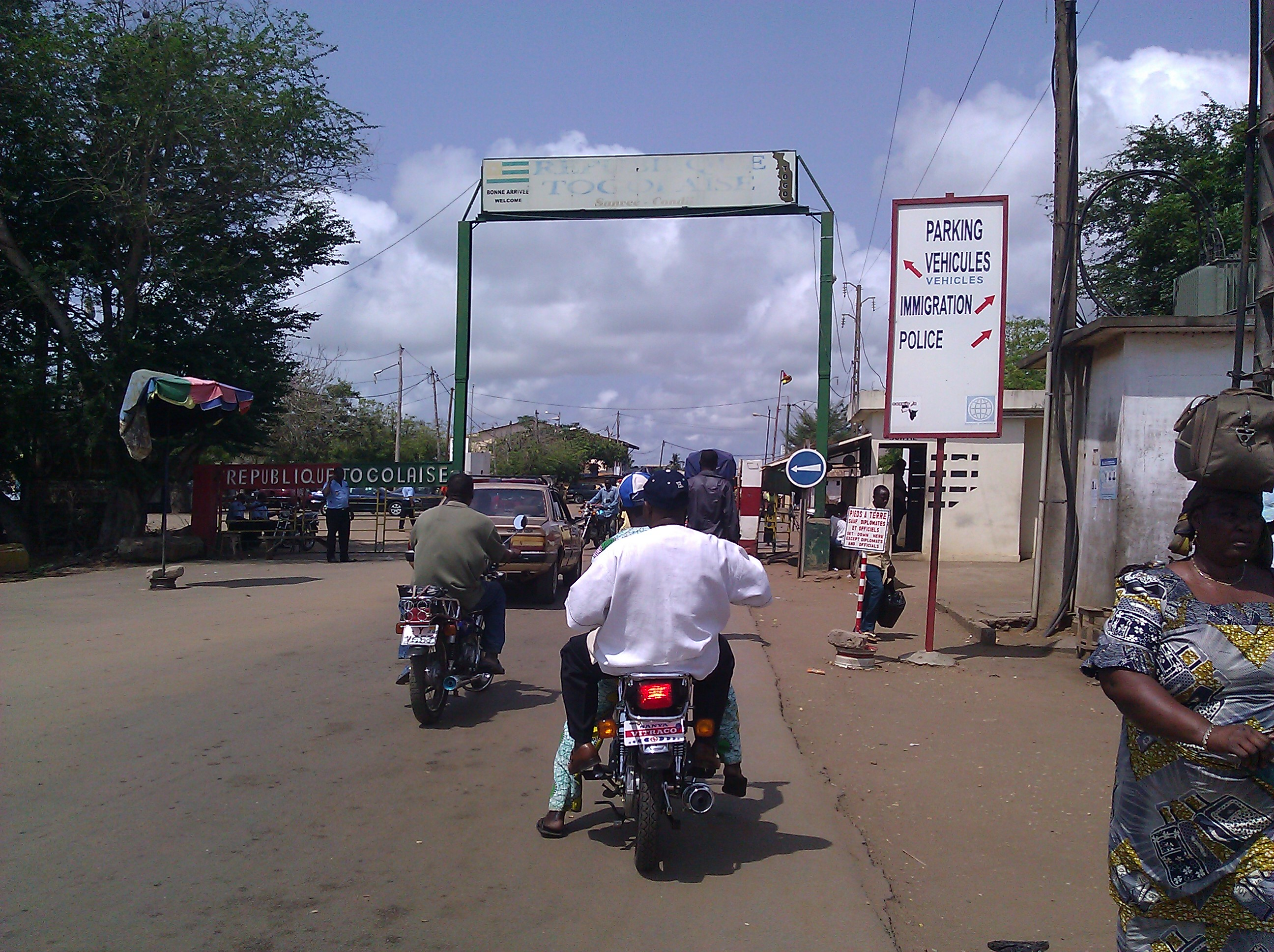 The border crossing into Togo from Benin